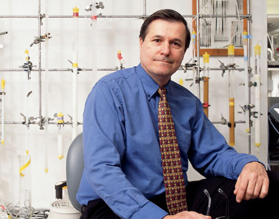 Bob Linhardt in Lab